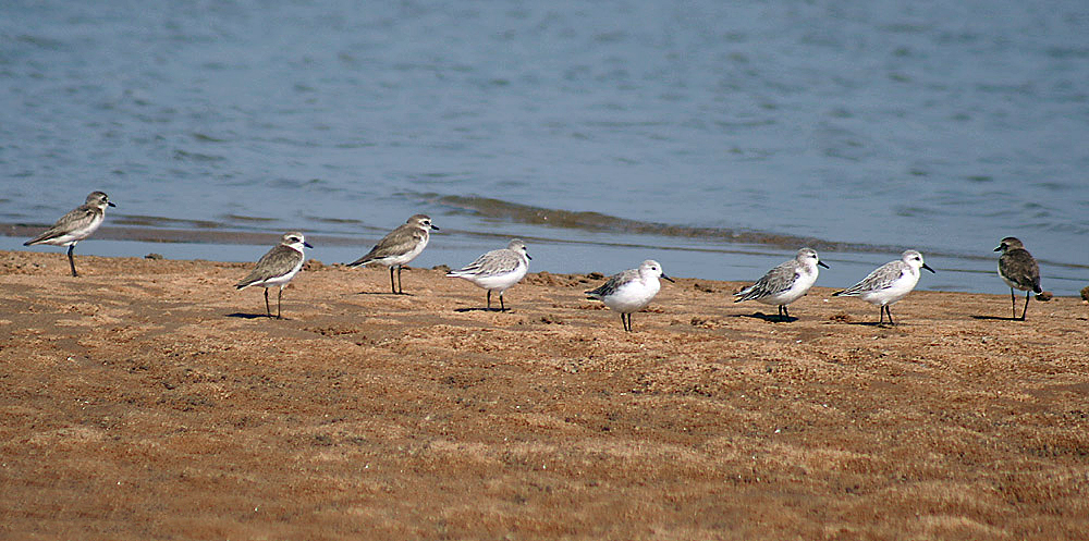 Lesser Sand Plover Charadrius mongolus & Sanderling Calidris alba in Chilika, Orissa, India.